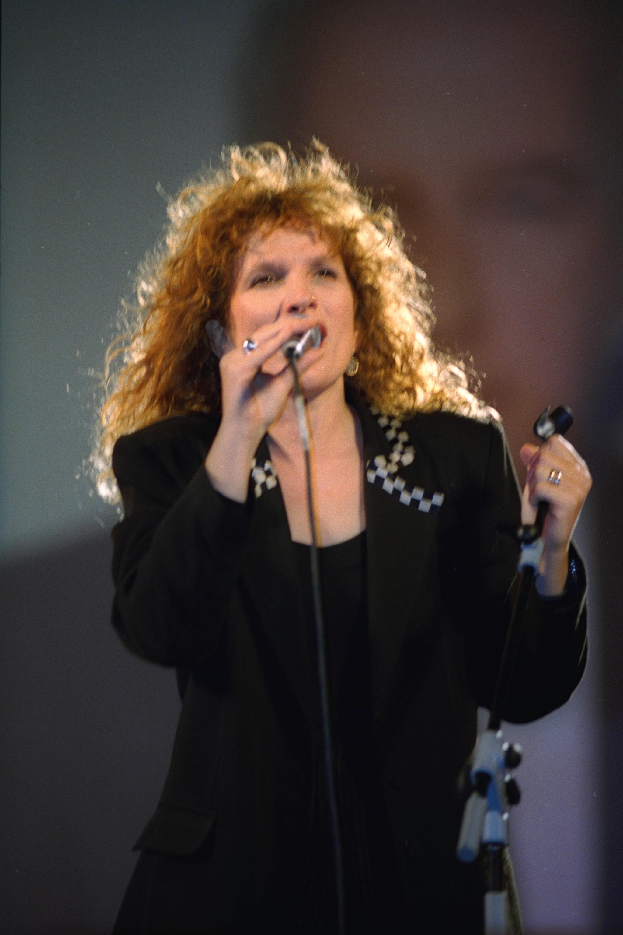 Singer Nurit Galron performing at a memorial service held for PM Yitzhak Rabin, murdered by a Jewish assasin during a peace rally held at Malkei Yisrael square. נורית גלרון שרה בטקס לזכר ראש הממשלה יצחק רבין Photo: MATAN ARAZI, 11/02/1996